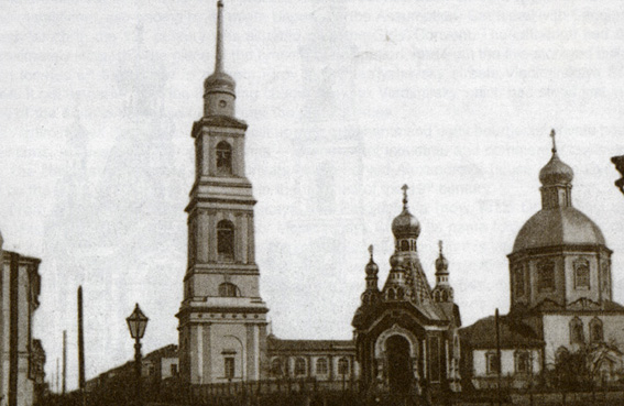 Vladimirsky sobor in Kazan, destroyed by the Soviets after 1917. It was located on the corner of Kirov and Chernishevskiy streets. Currently a house stands in its place